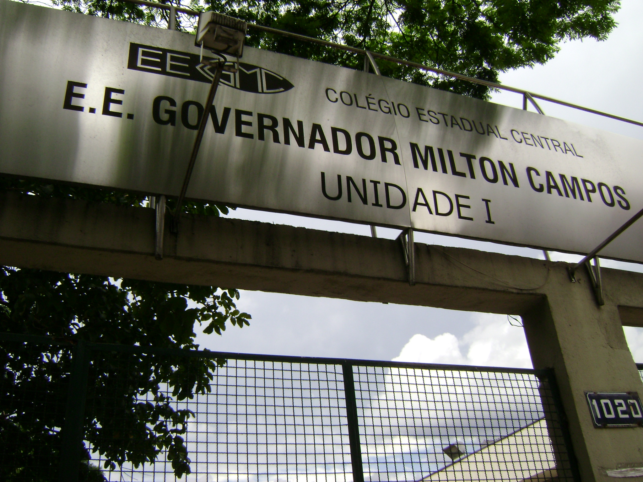 Entrada do colégio Estadual Central, em Belo Horizonte.